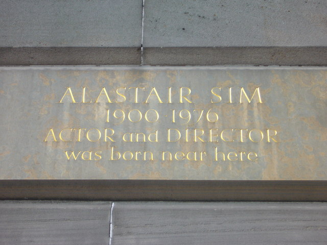 Alastair Sim memorial stone, Lothian Road Inscribed stone outside the entrance to the Edinburgh Filmhouse indicates the proximity of the famous actor's birthplace. He attended George Heriot's School, a few blocks away.